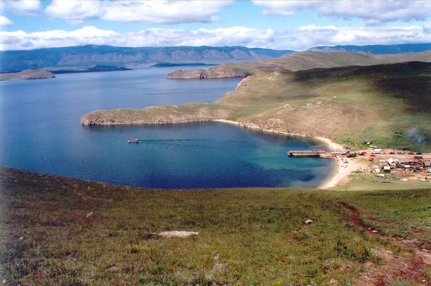 Olkhon